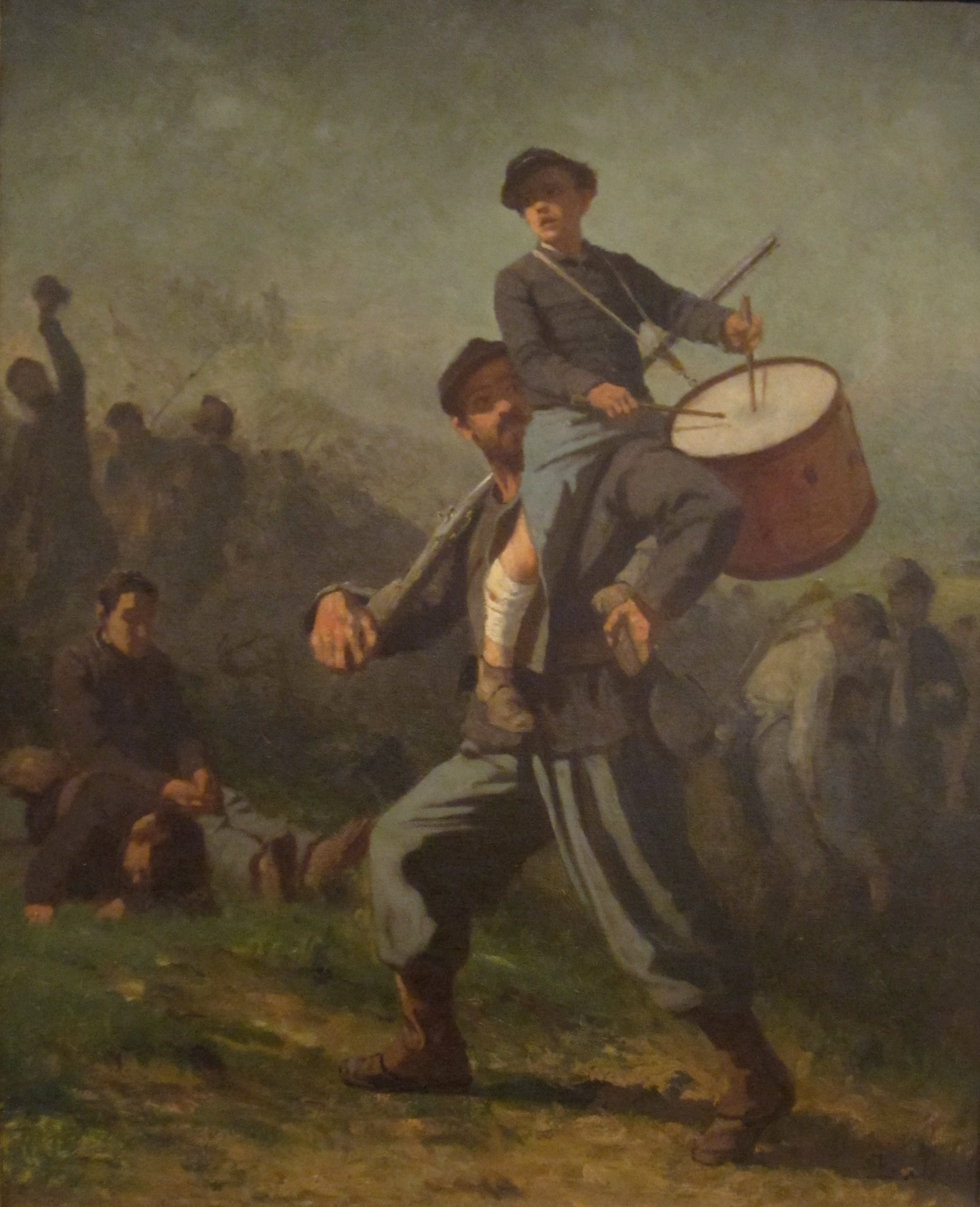 Wounded Drummer Boy, oil on board painting by Eastman Johnson, 1865-69, San Diego Museum of Art